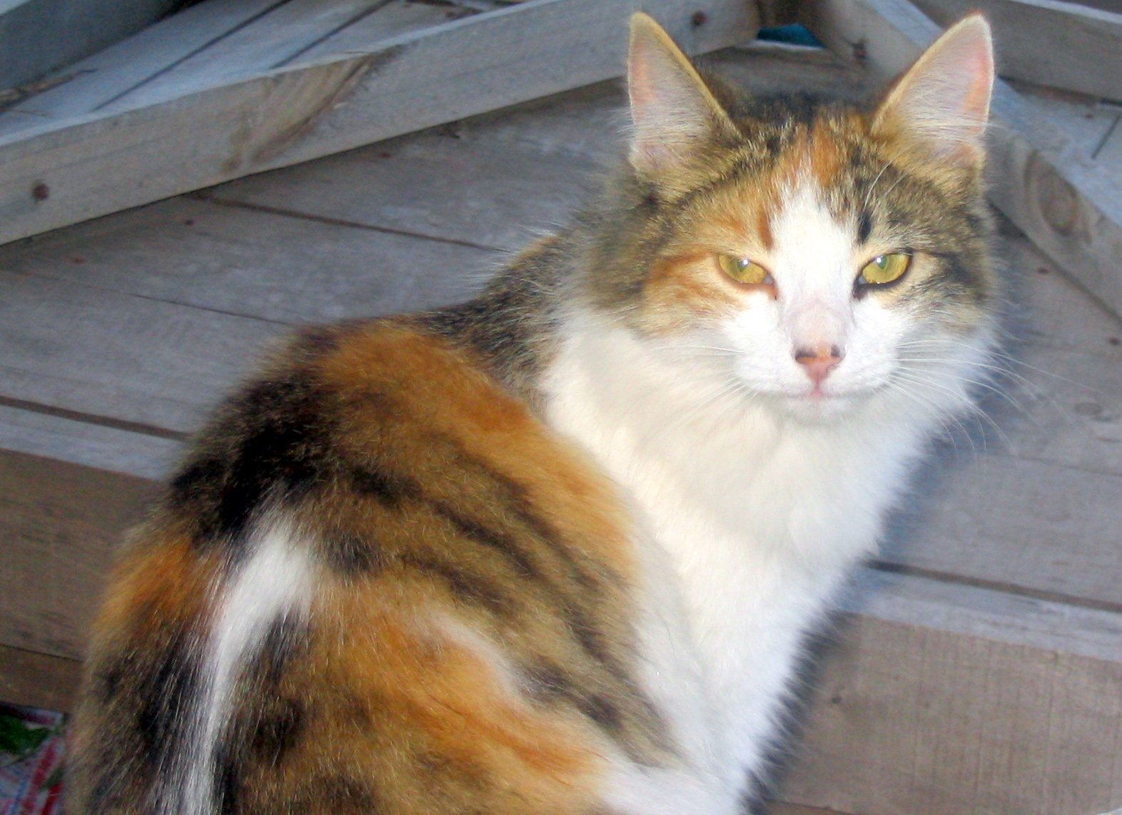 A cat named Kylie.